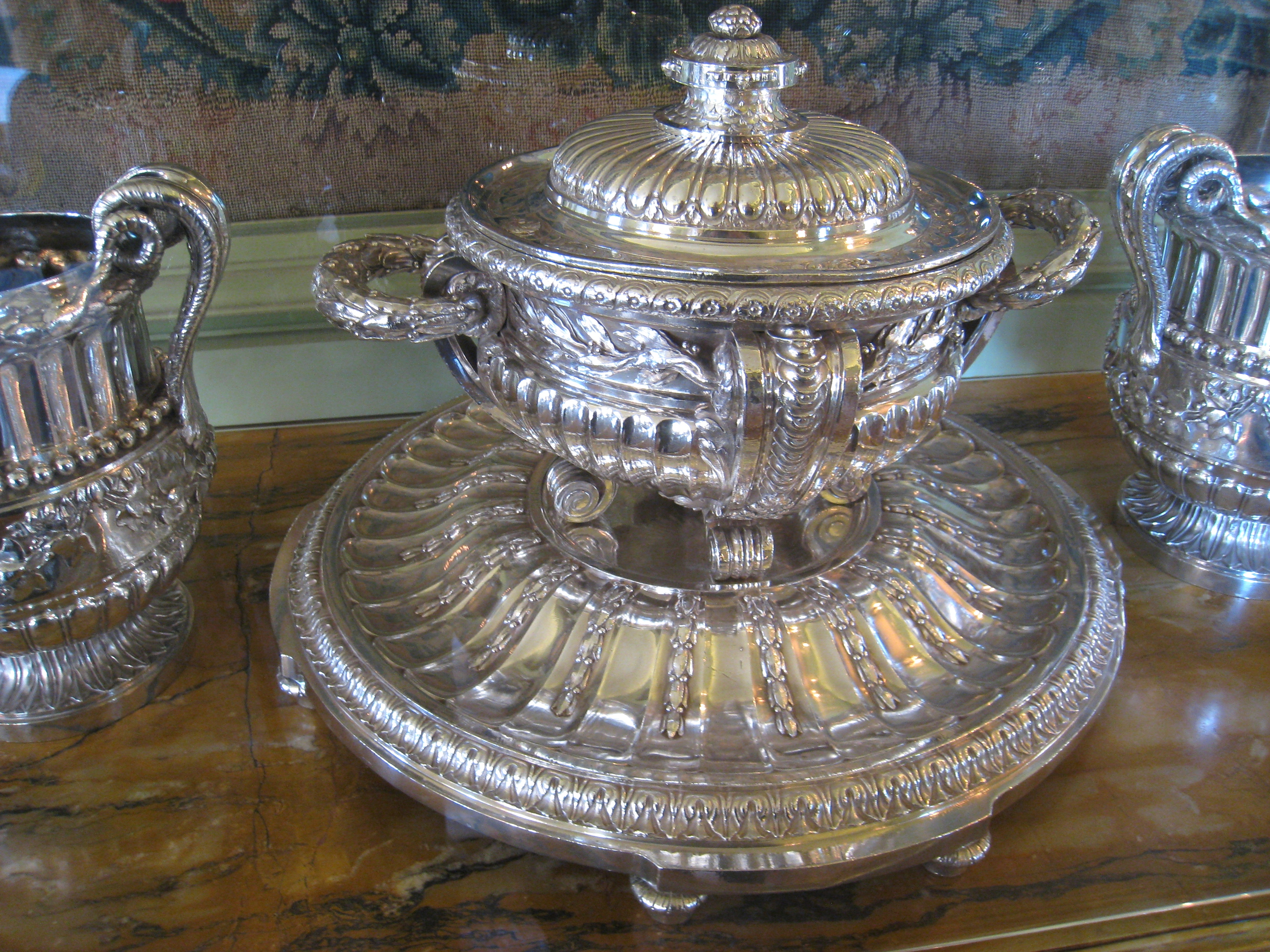 Musée Nissim de Camondo, Paris, France - Silver from the Orloff silver dinner service commissioned by Catherine II of Russia from silversmith Jacques-Nicolas Roettiers, 1770.